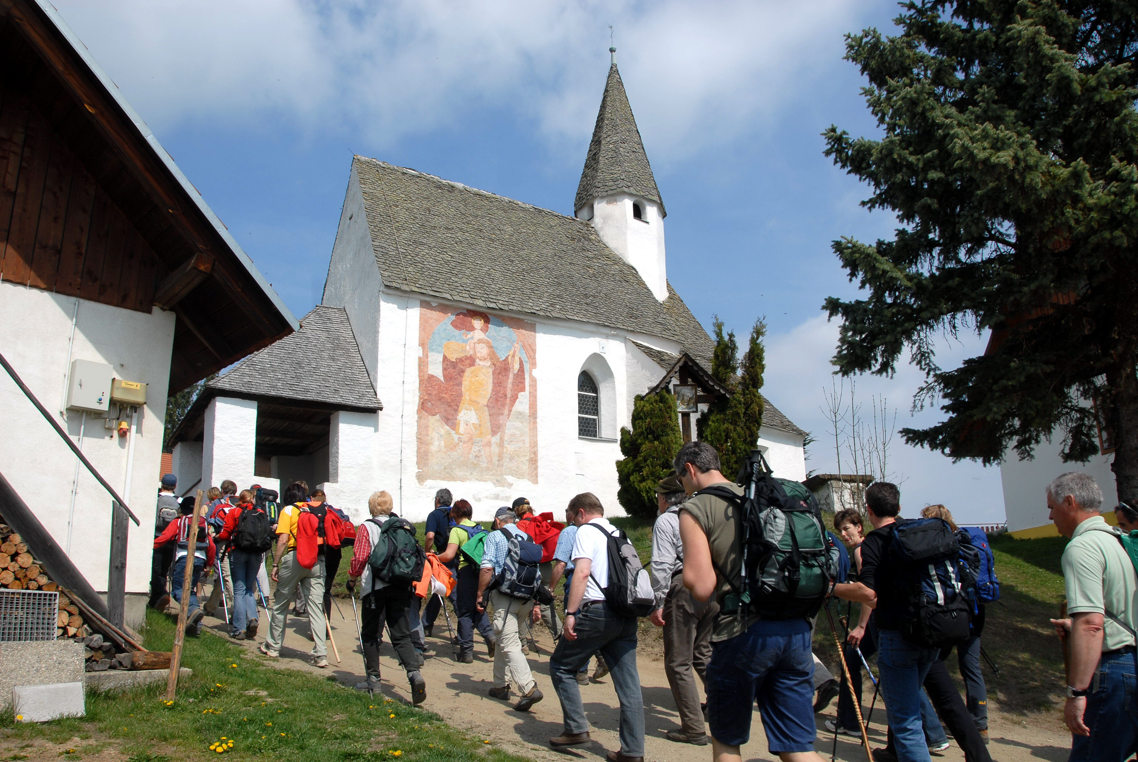 Subsidiary church Saint Lawrence in Lorenziberg, municipality Frauenstein, district Sankt Veit an der Glan, Carinthia, Austria, EU